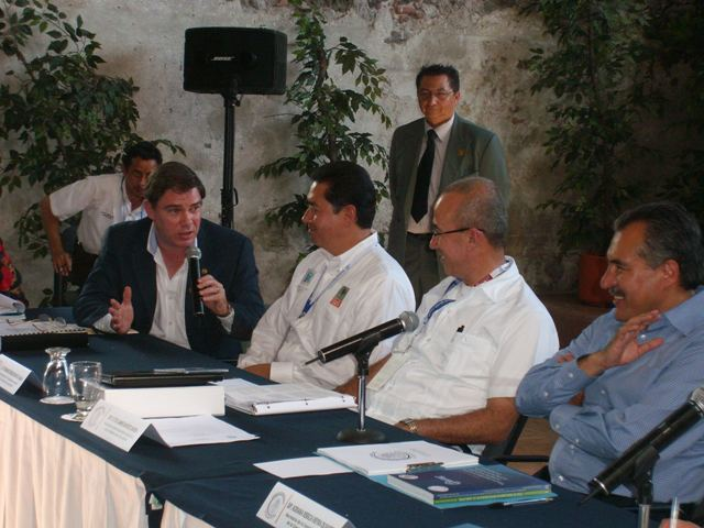 Meeting in Cocoyoc with Marco Antonio Adame. Morelos governator